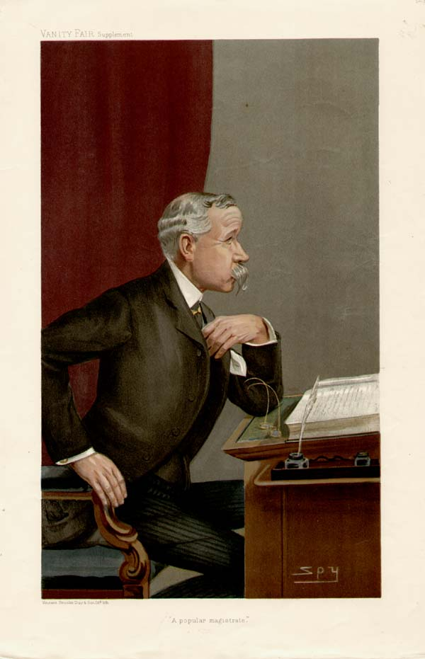 Men of the Day No.0972: Caricature of Ernest Baggallay. Caption reads: "A popular magistrate"